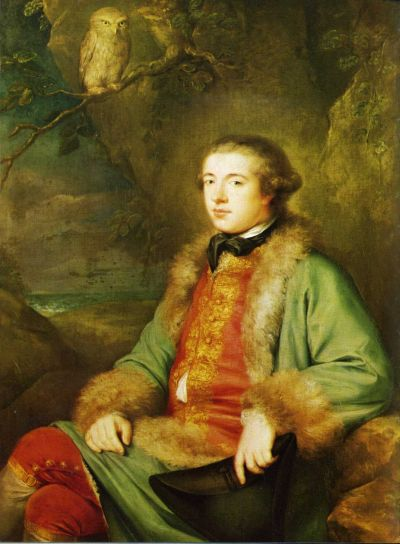 Portrait of James Boswell (1740-1795) at twenty-five